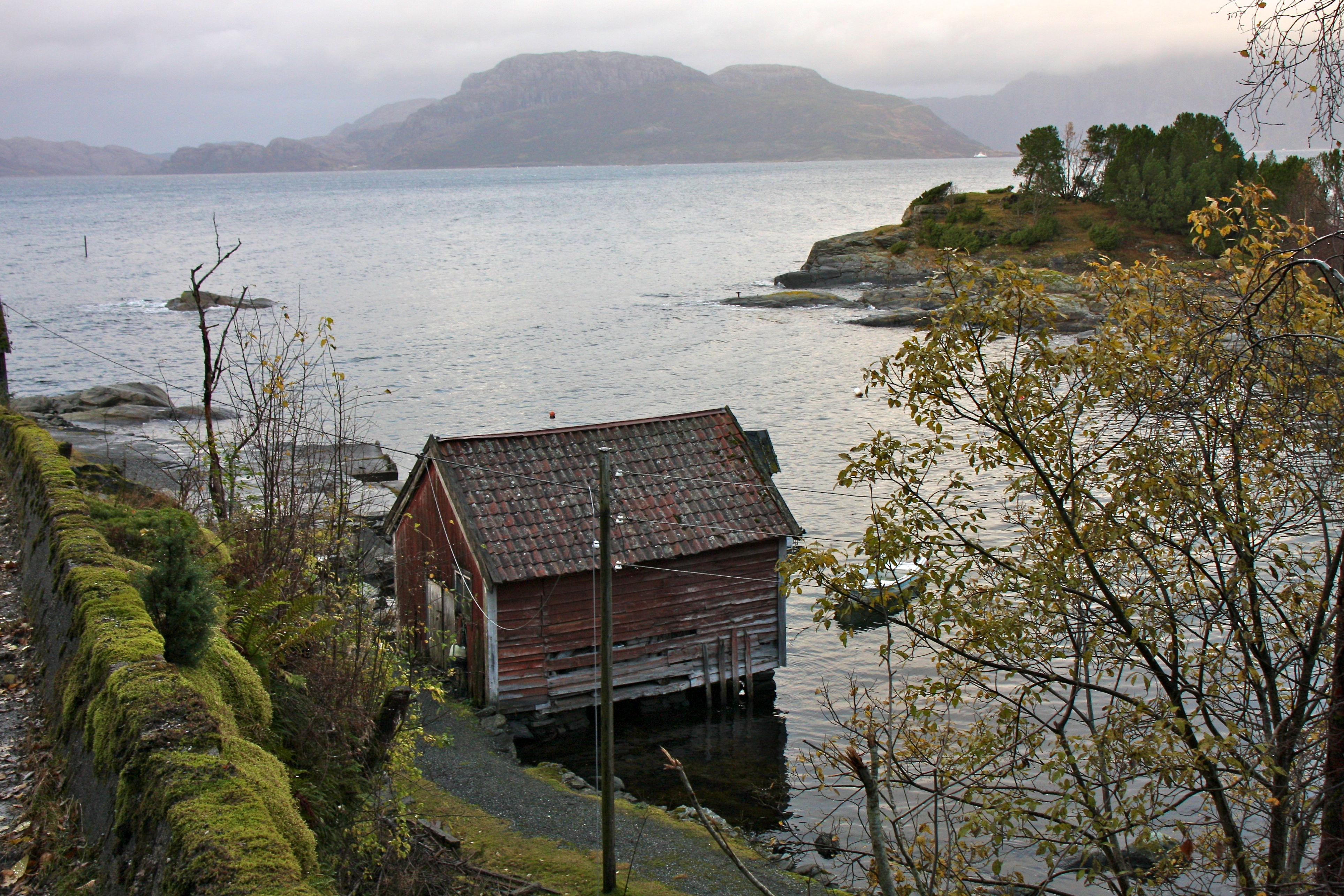 Sygnefest in Gulen municipality, Norway.